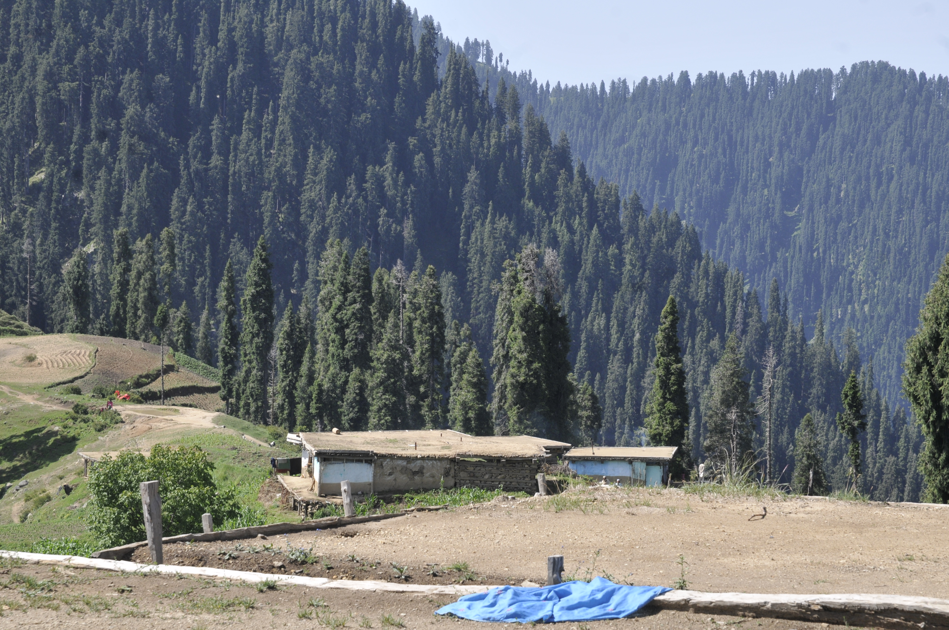 swat Valley